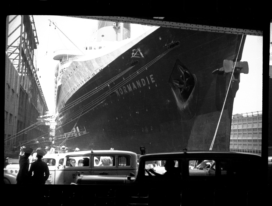 The SS Normandie taken in NYC harbor. Taken my my father.